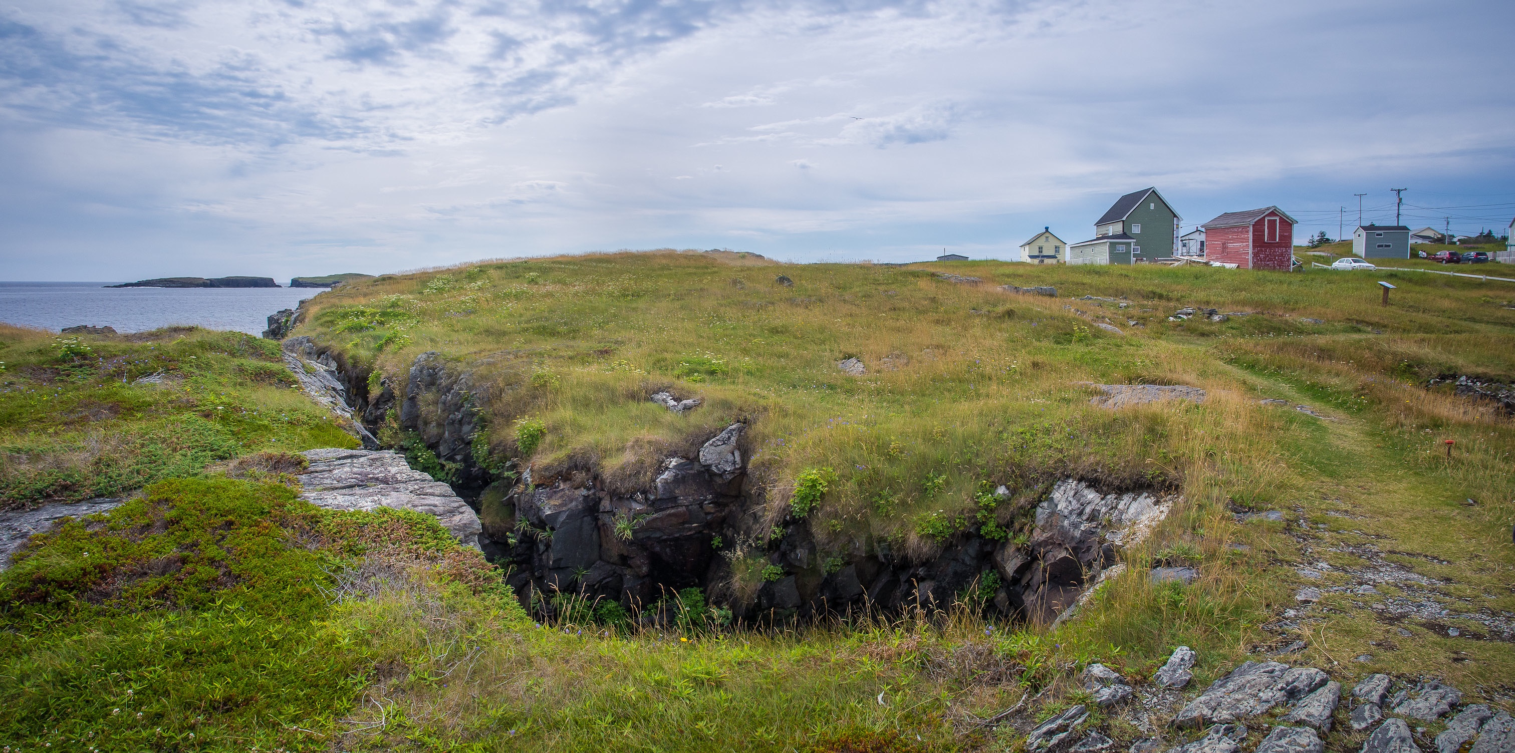 Watch your step (Elliston, Newfoundland and Labrador)